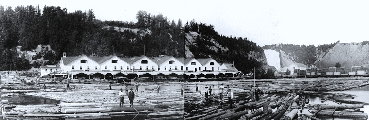 Photograph, Panorama, Montmorency Falls & lumber mill, Montmorency Falls, QC, about 1887, Anonymous, Silver salts on paper - Albumen process - 25 x 20 cm